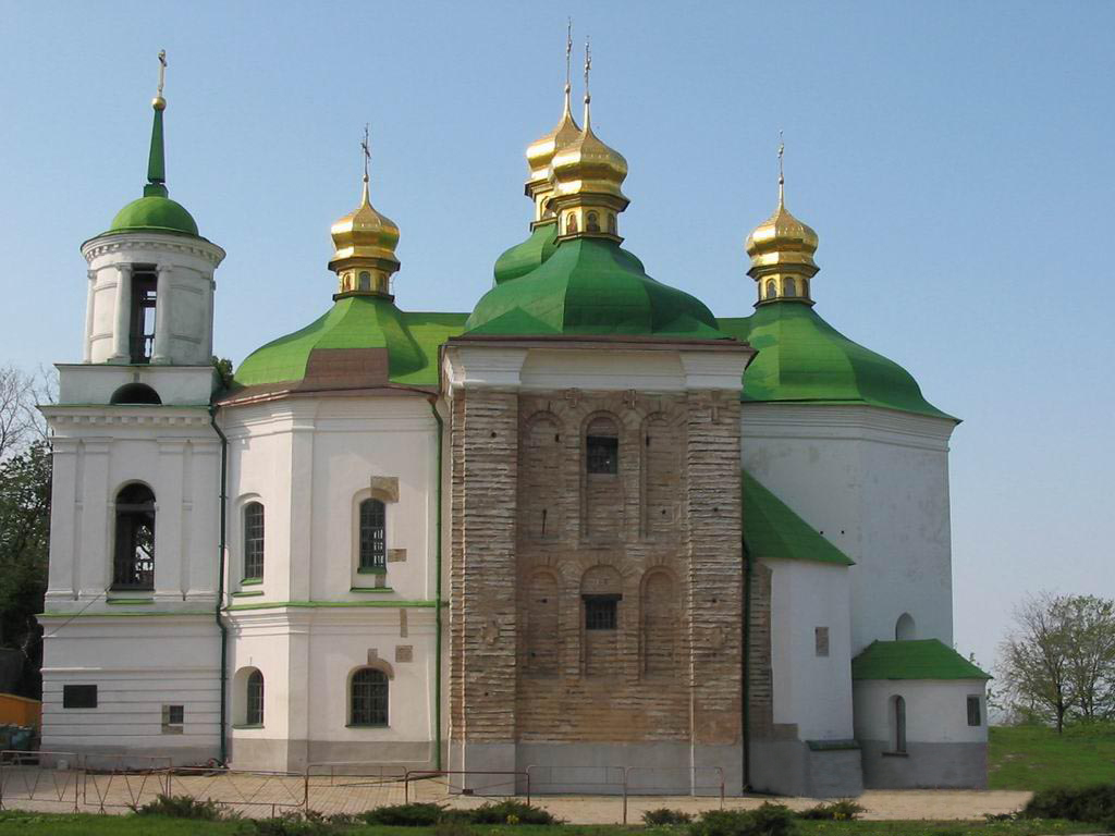 Church of the Saviour at Berestove in Kiev, Ukraine.